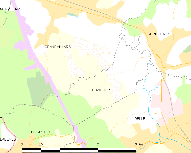 Map of French municipality Thiancourt